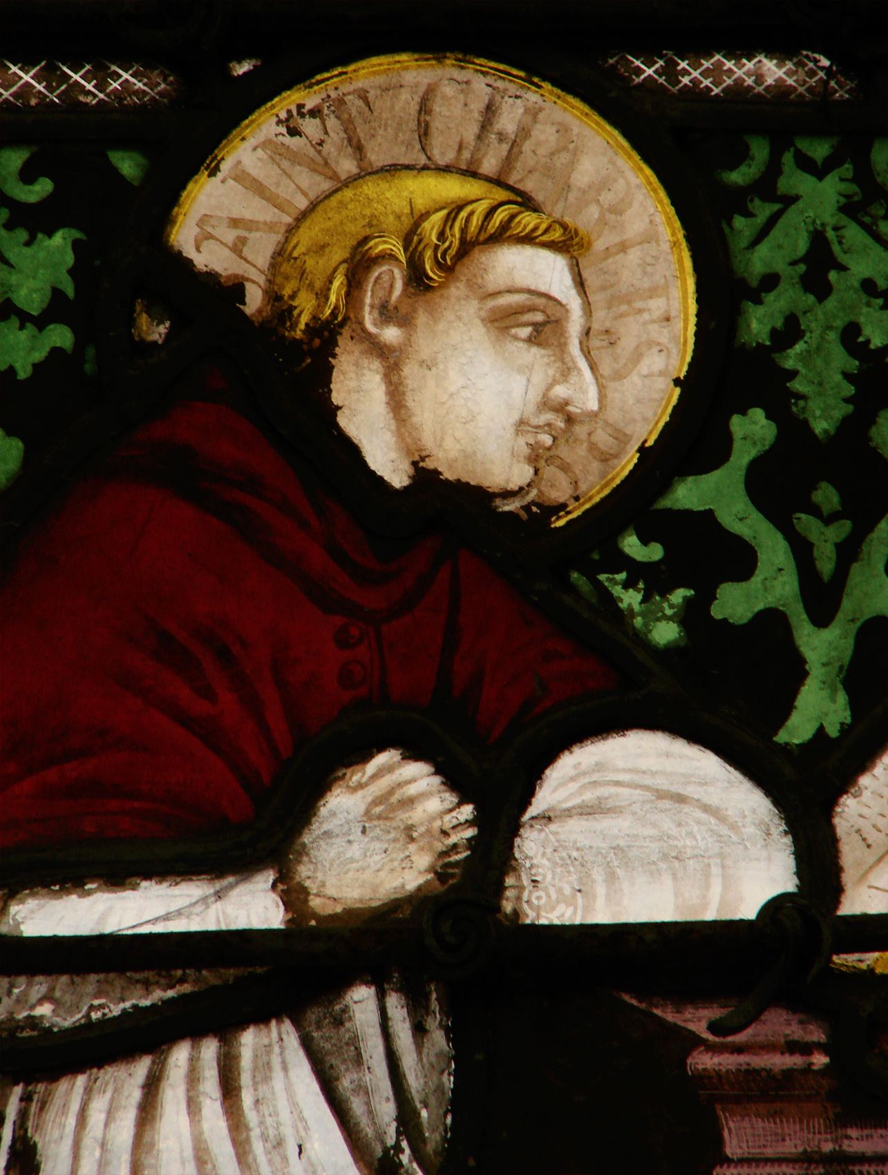 Saint-Nicholas basilica, Saint-Nicolas-de-Port, Meurthe-et-Moselle, Lorraine, France. 16th century.Stained glass window representing Saint Charles Borromée, 19th century.